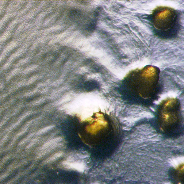 Myxococcus xanthus is a predatory bacterium that moves on exclusively solid surfaces and exhibits various collective behaviors throughout its lifecycle. In the presence of prey (here E. coli), M. xanthus cells self-organize into periodic bands of traveling waves, termed ripples (left-hand side). In the areas without prey, M. xanthus cells are under nutrient stress and as a result self-organize into haystack-shaped, spore-filled structures termed fruiting bodies (right-hand side, yellow mounds).